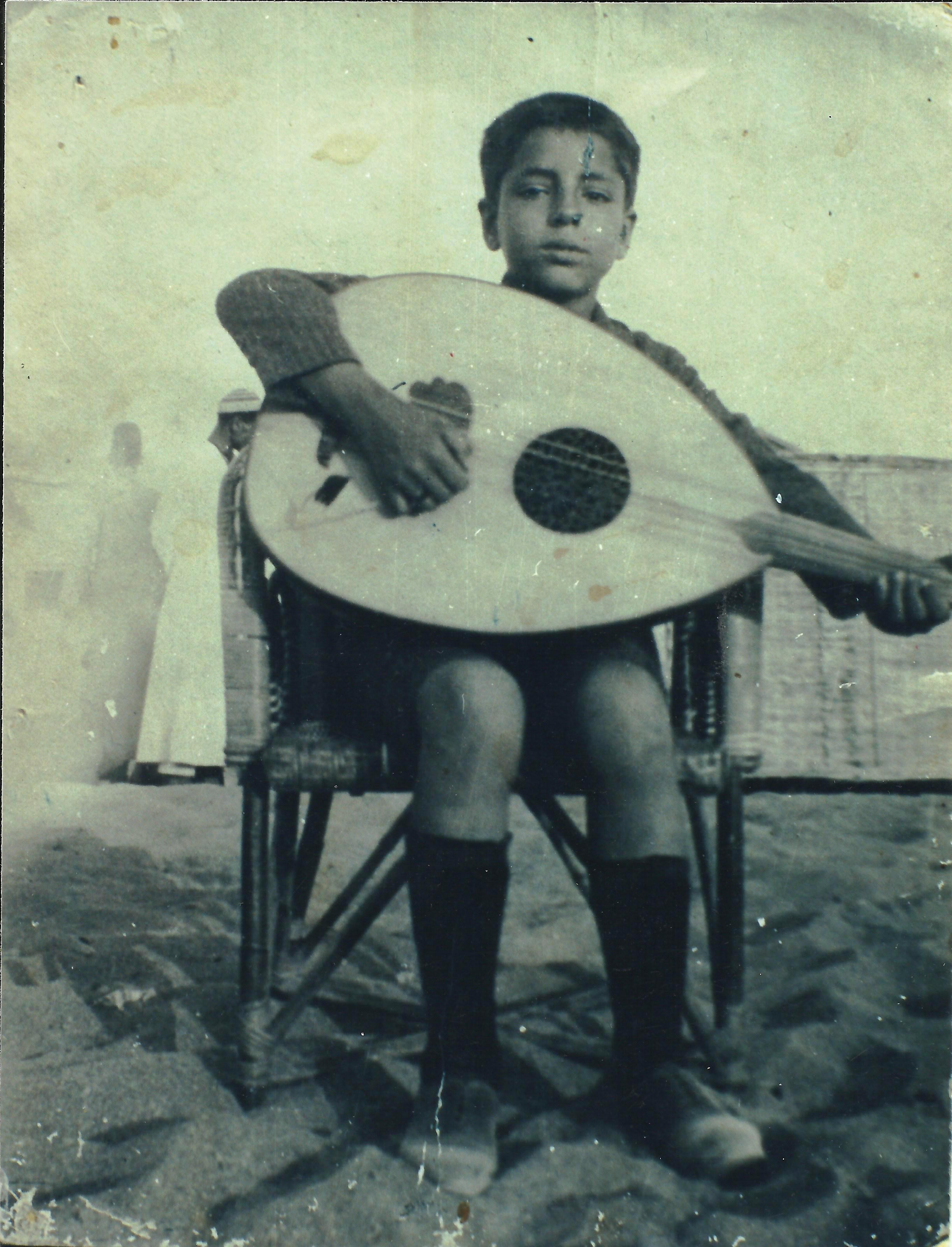 A picture of young Hussein Bicar taken in early 1920s as he holds his lute